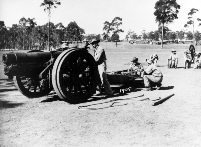 2/1st Medium Regiment at Ingleburn, New South Wales